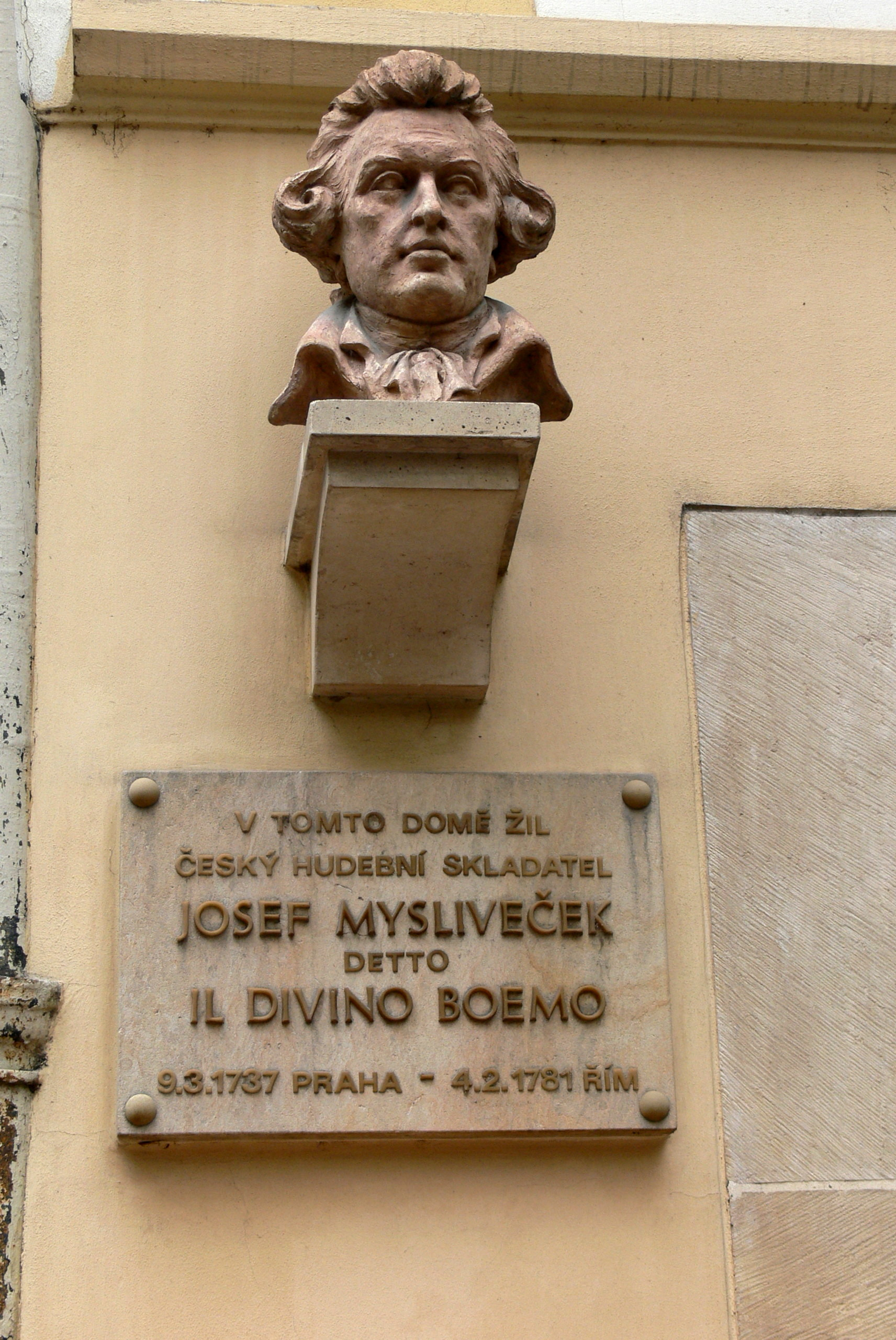 Melantrichova street (Old Town, Prague). Memorial to Josef Mysliveček.